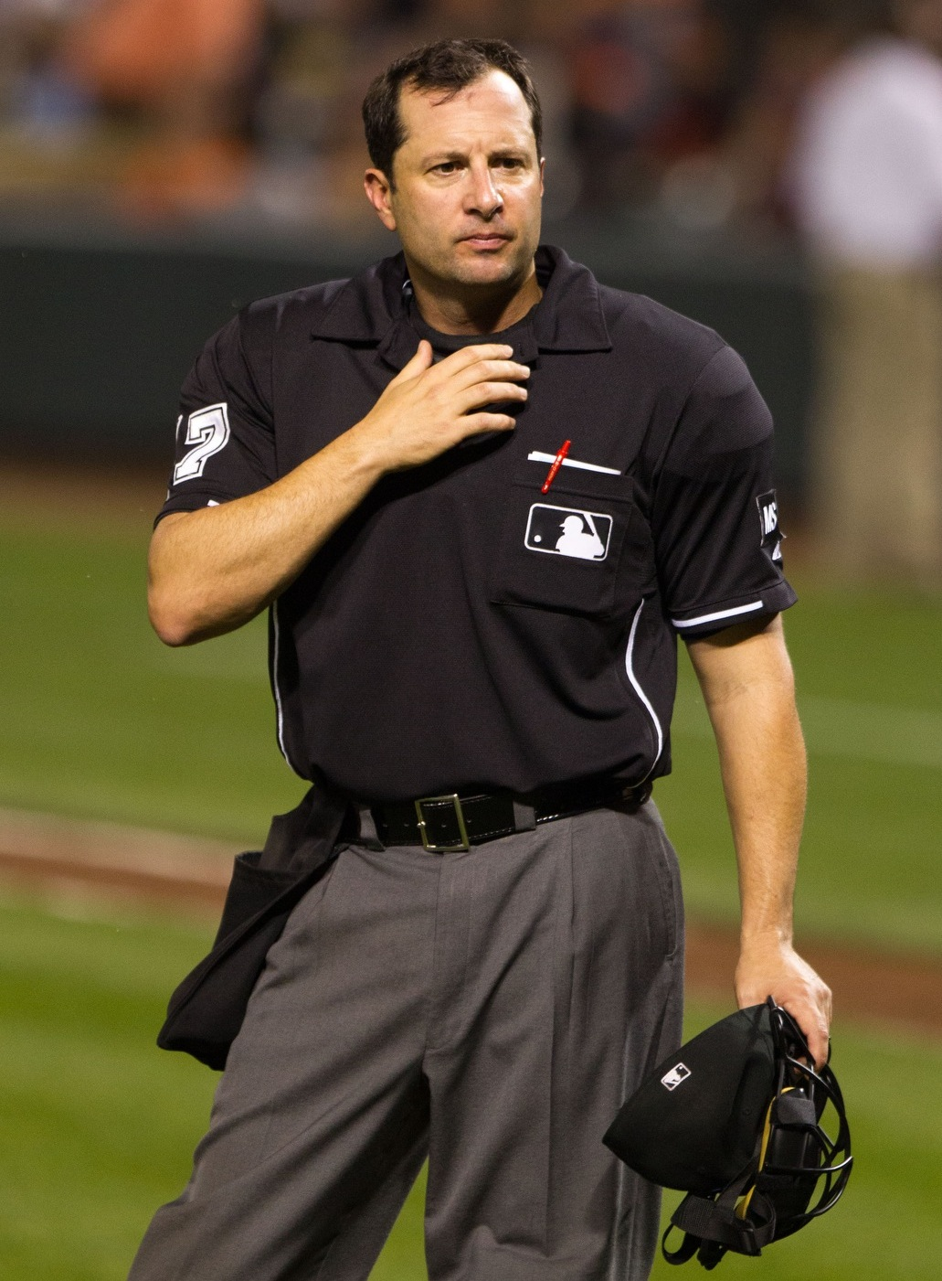 MLB umpire Jim Reynolds - Pirates at Orioles June 12, 2012